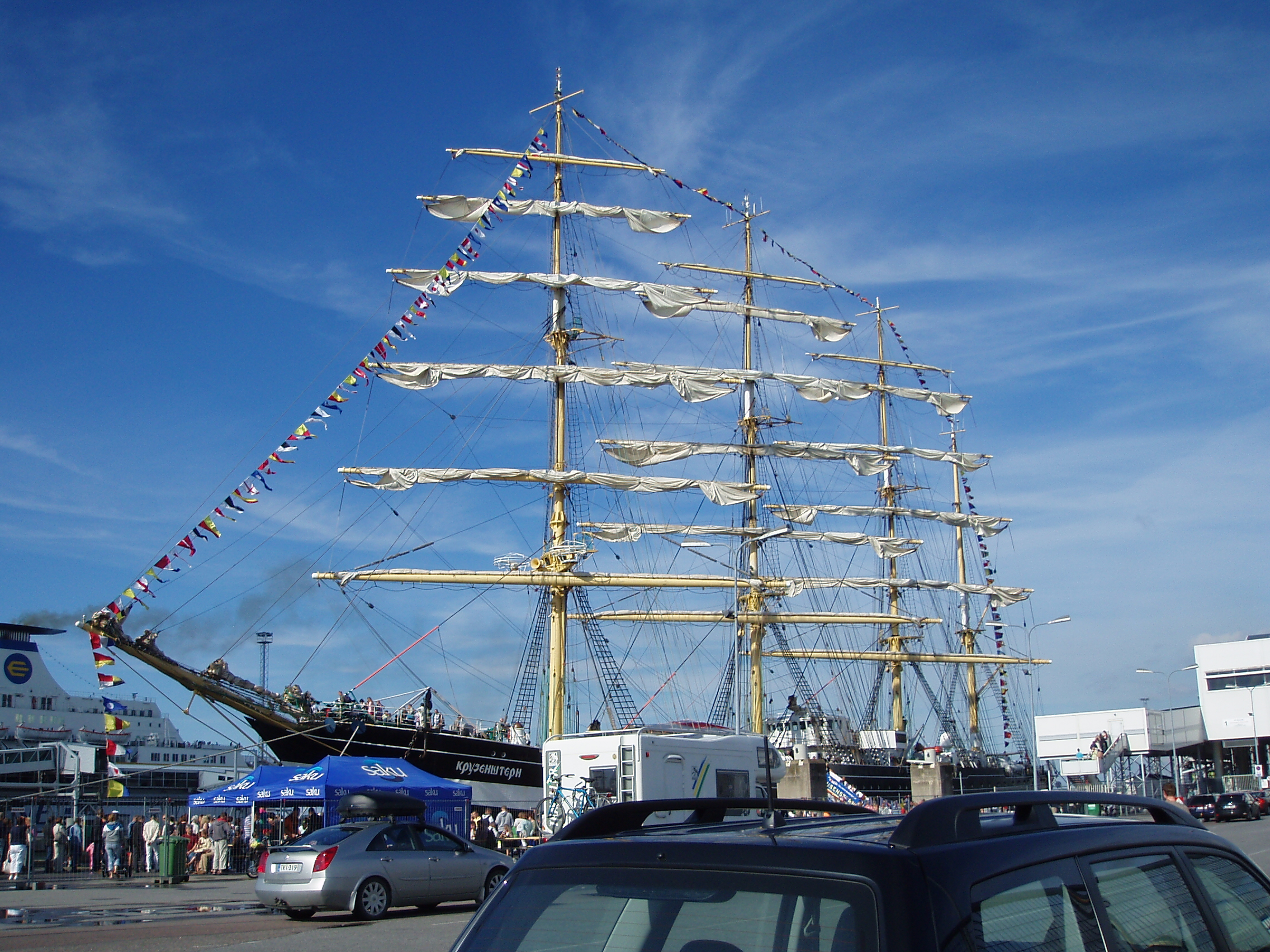 Kruzenshtern at D-Terminal Tallinna Merepäevad 2011 Tallinn 16 July 2011